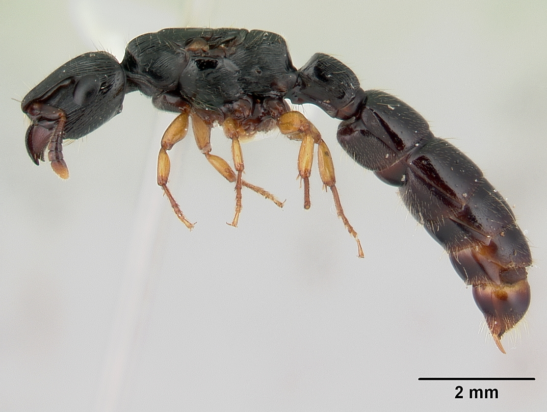 Profile view of ant Cylindromyrmex boliviae specimen casent0178663.